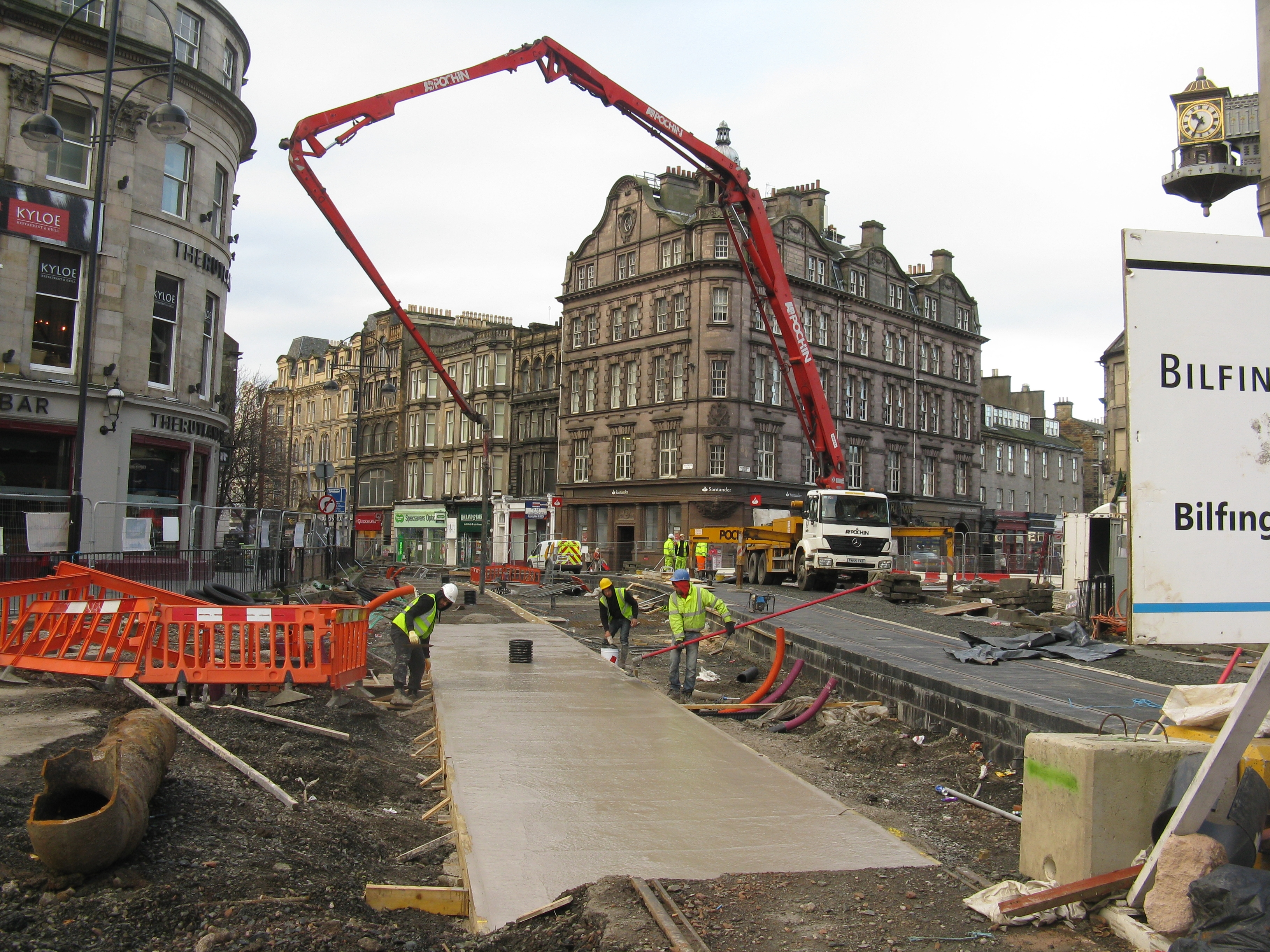 Shandwick Place from Edinburgh West End